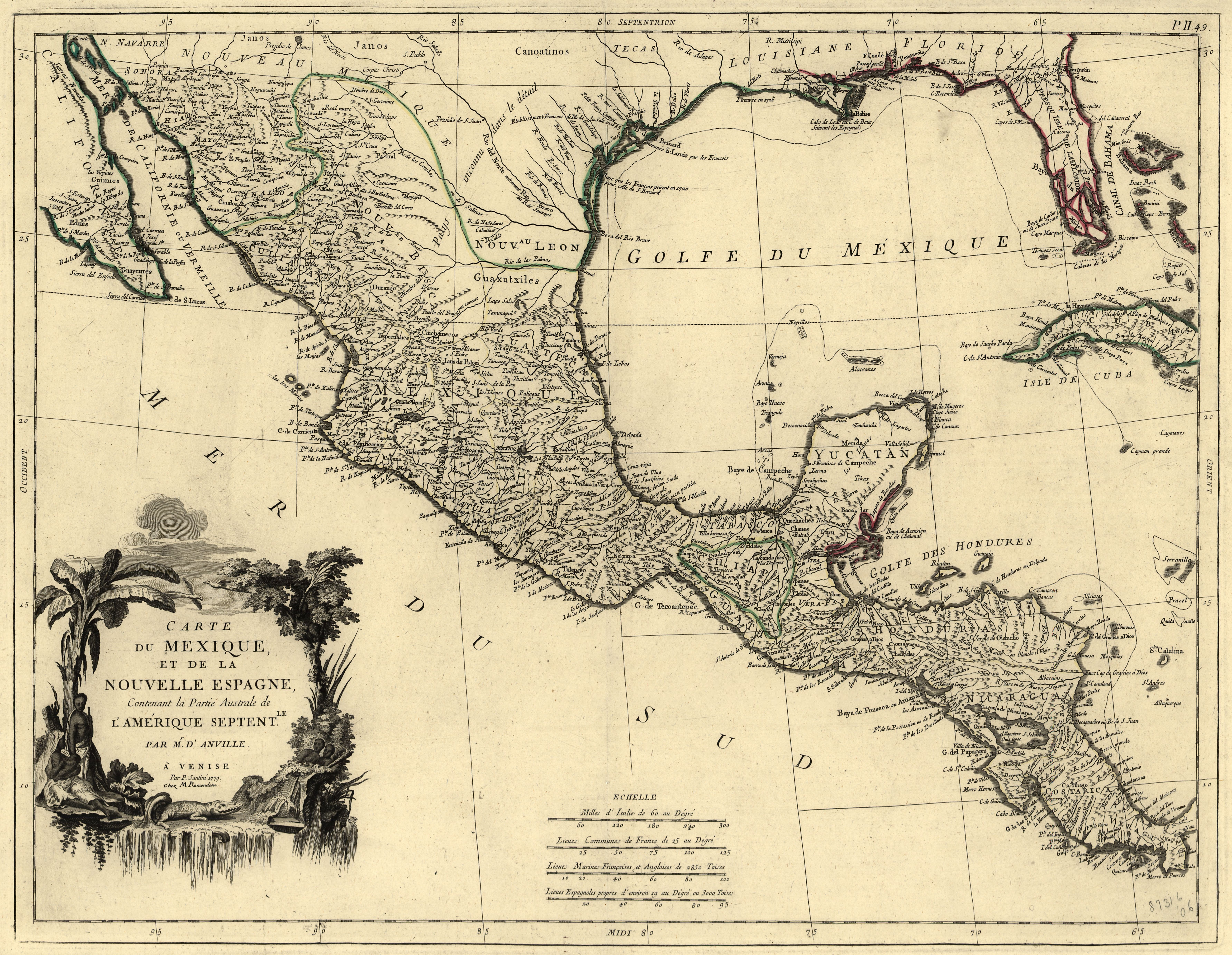 Relief shown pictorially. Outline color. Phillips, 647 Lowery, 617 Available also through the Library of Congress Web site as a raster image. From: Santini's Atlas universal. Venise, Remondini, 1776-[1784].